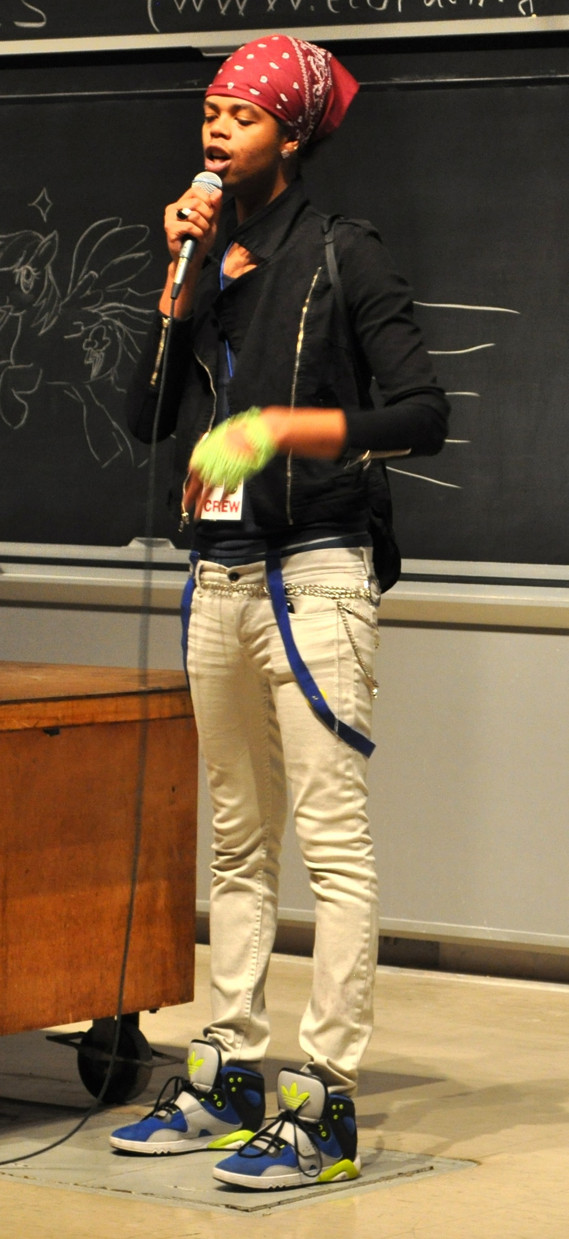 ROFLCon memes MIT Antoine Dodson Vegan Black Metal Chef Trn Guy Yosemitebear